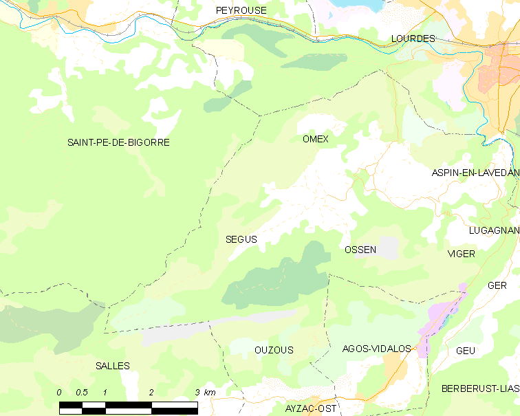 Map of French municipality